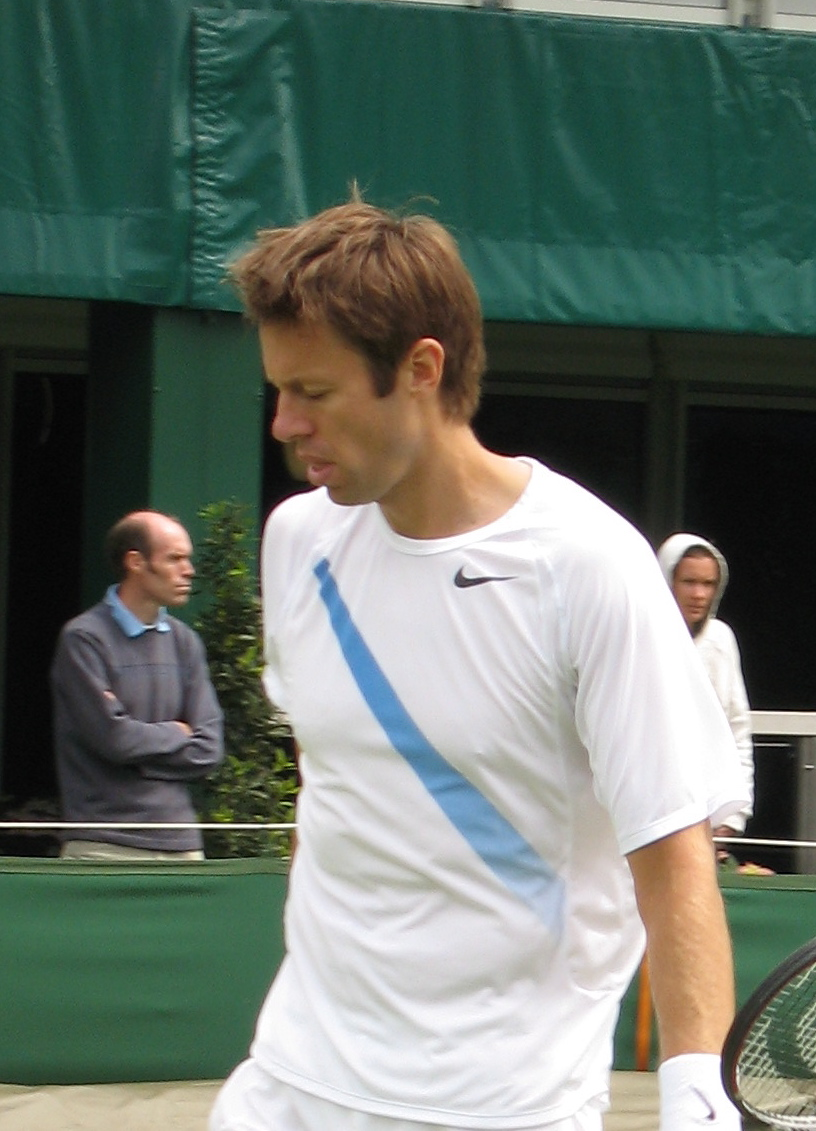 Daniel Nestor at Wimbledon 2007